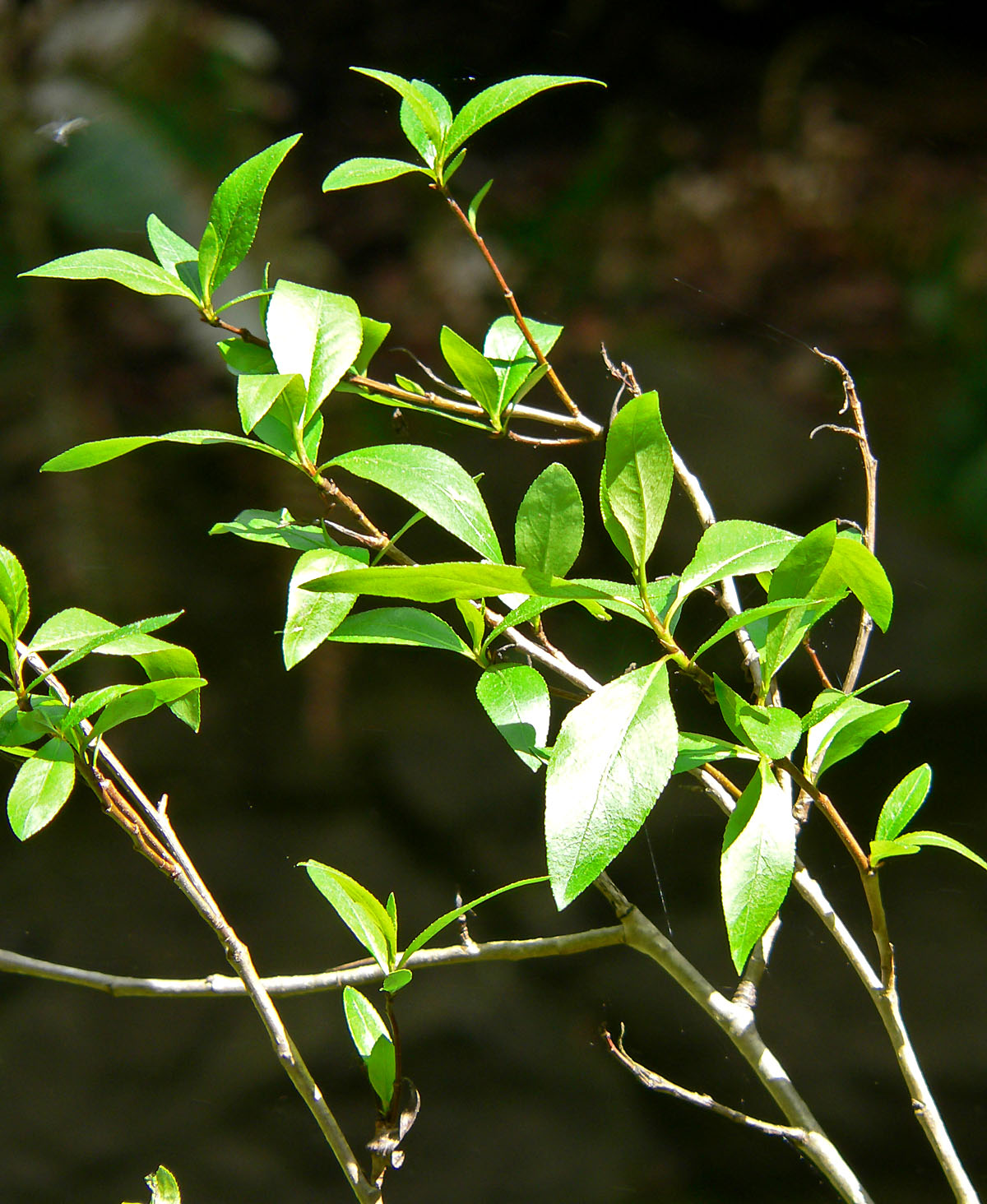 Photo of Populus angustifolia at the Regional Parks Botanic Garden, Berkeley, California